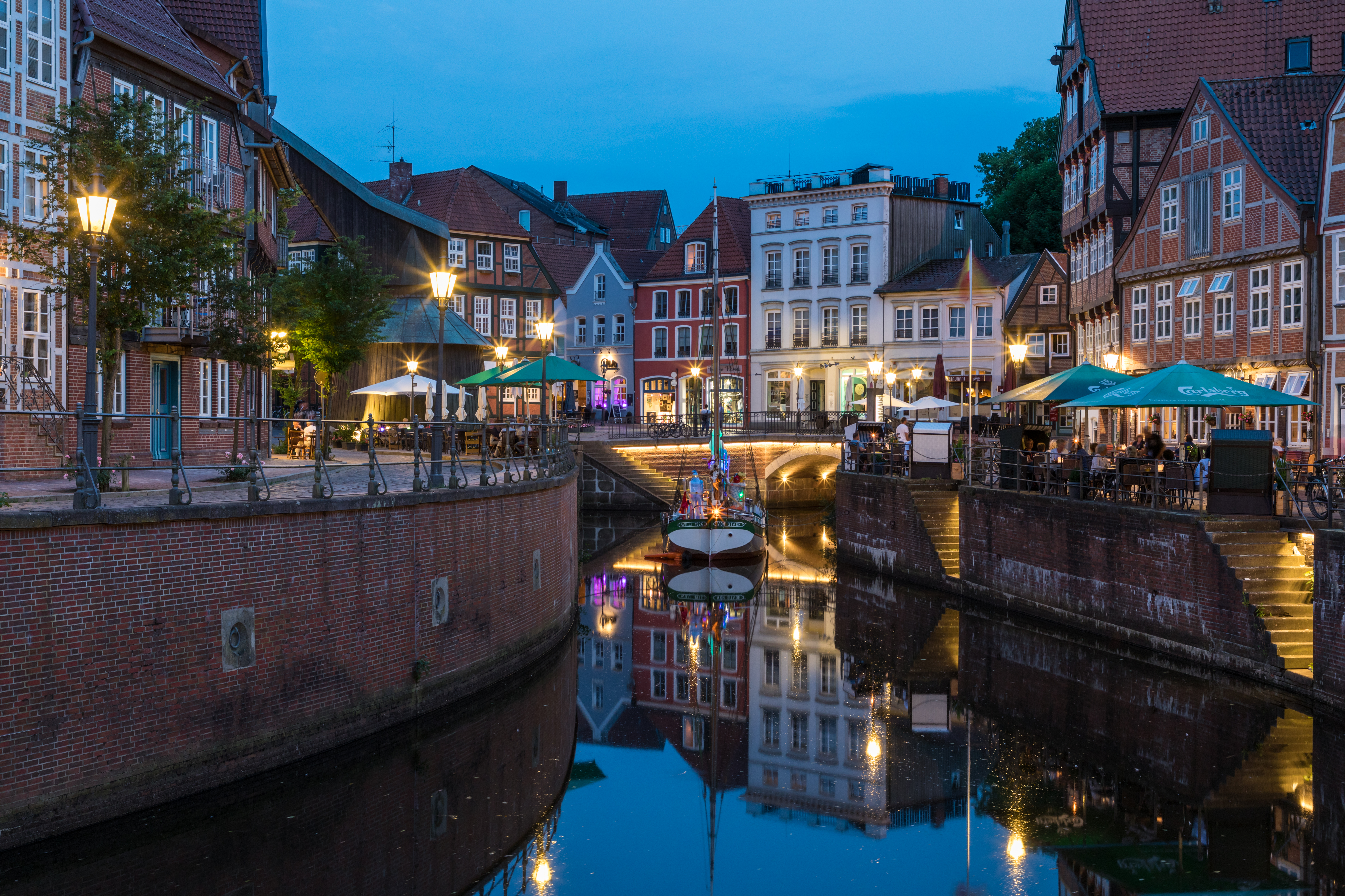 Hanse harbour, Stade, Lower Saxony, Germany